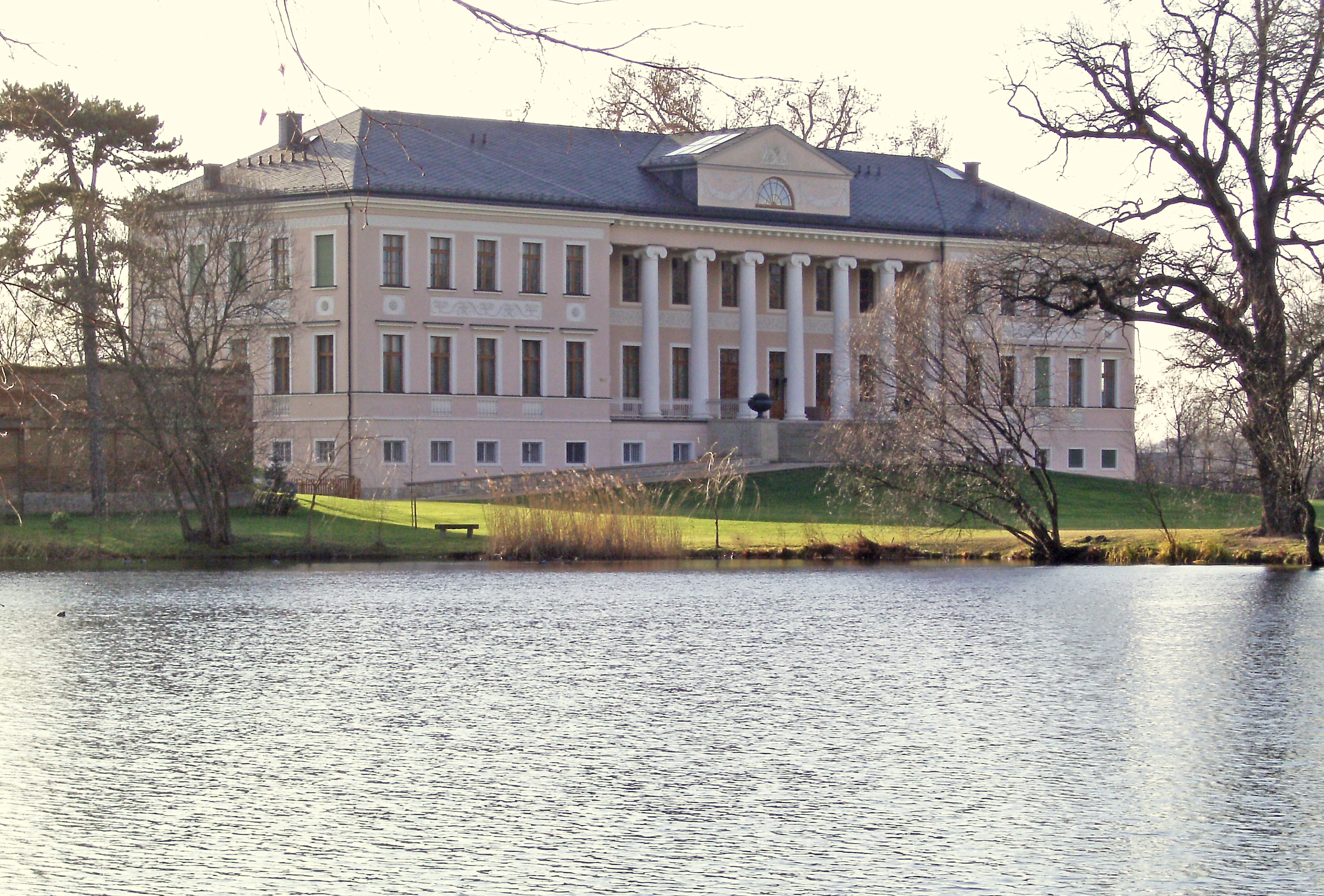 North side of Dölkau castle (Leuna, district of Saalekreis, Saxony-Anhalt)